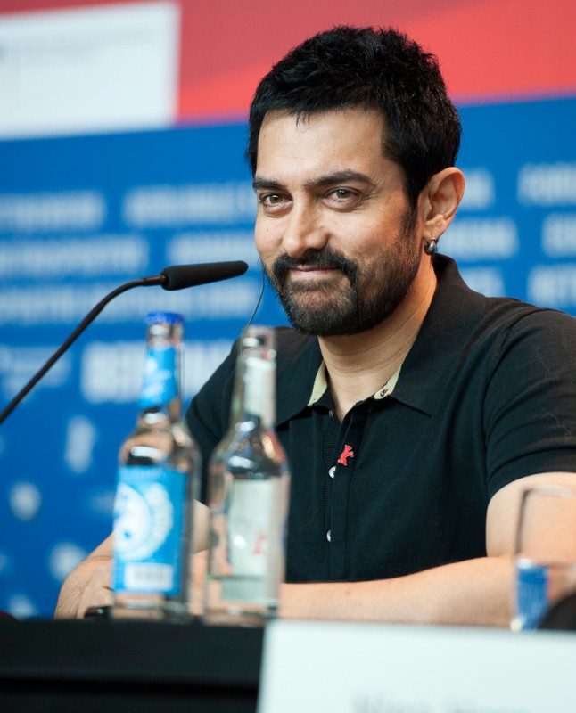 Aamir Khan at Berlin Film Festival